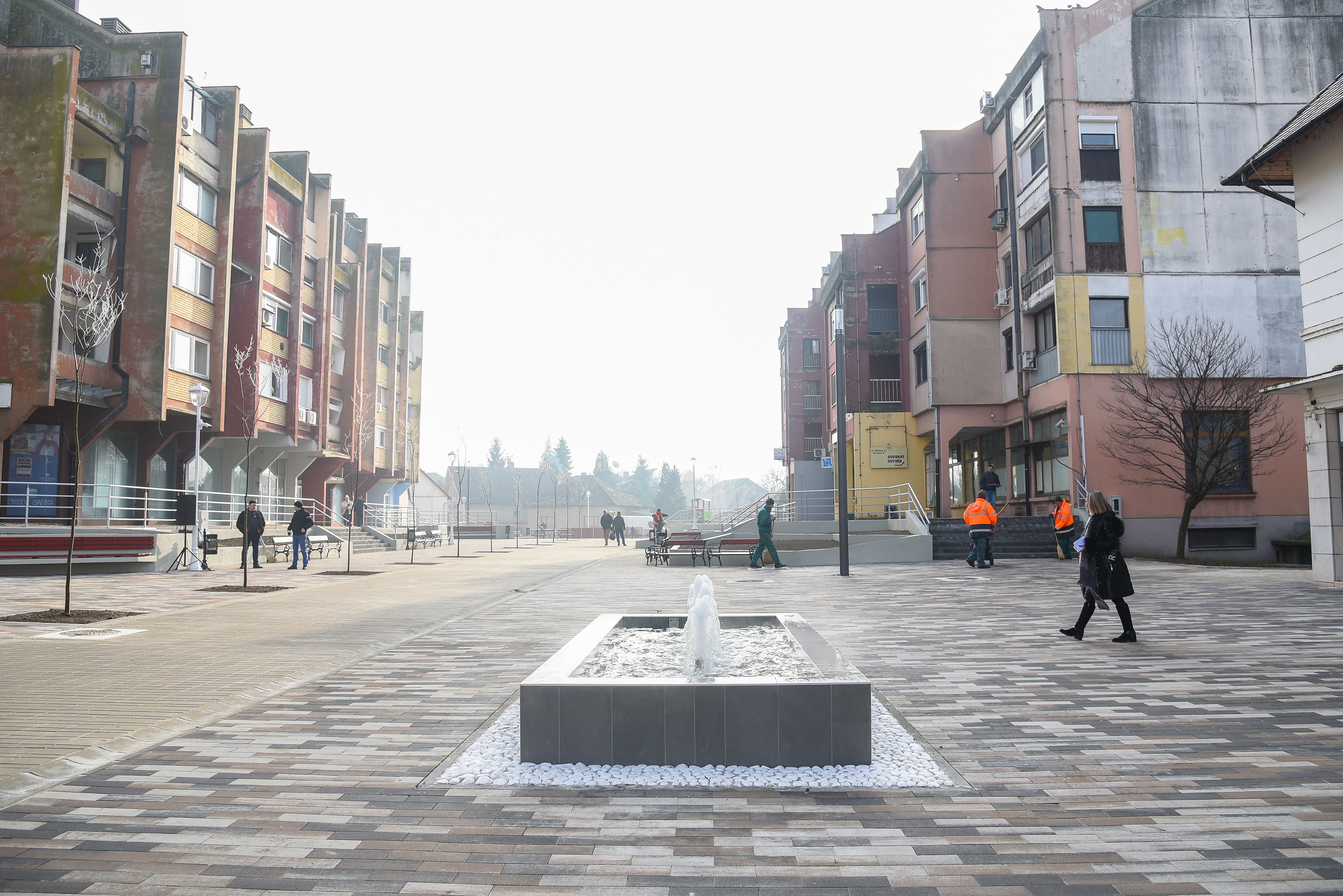 Central square in Kanjiža, Serbia.